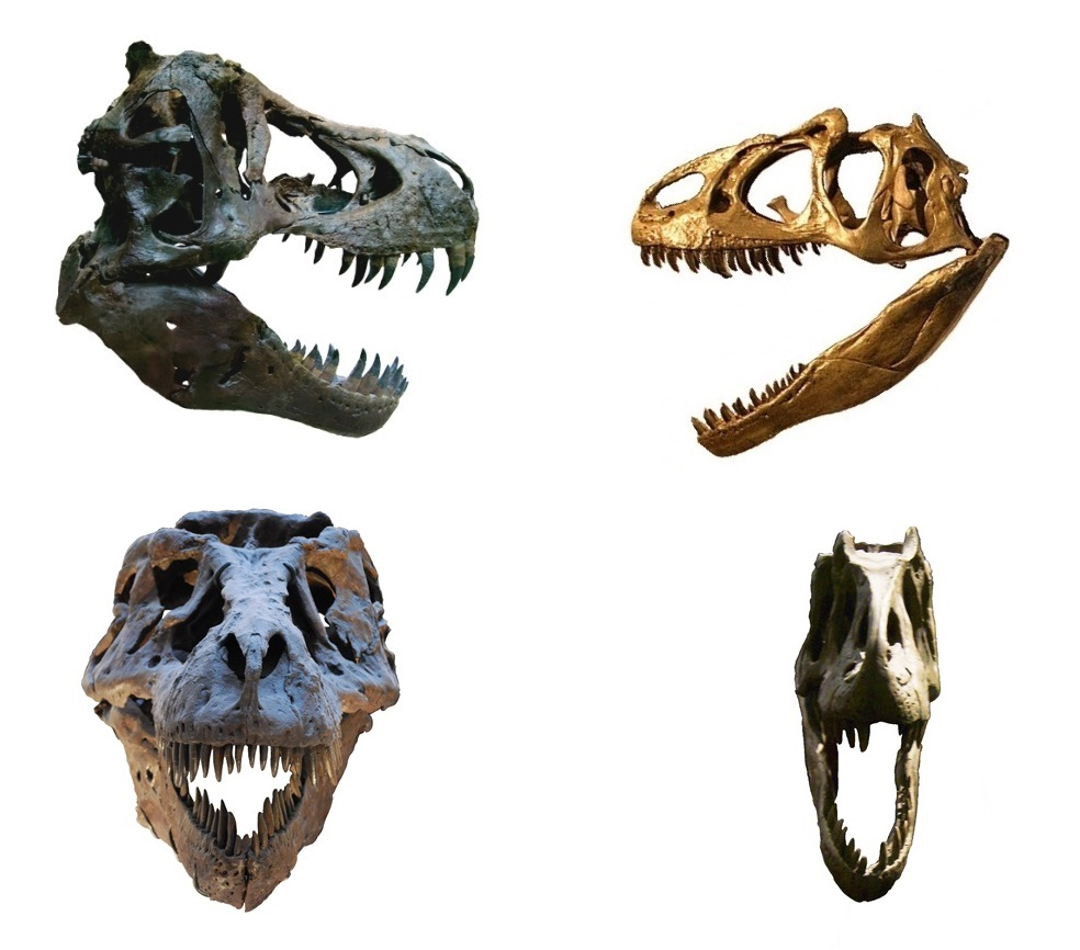 Comparative illustration of Tyrannosaurus and Allosaurus skulls